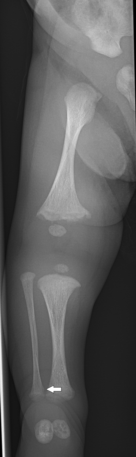 edit X-rays of a full term neonate boy who was found to have crackles from the chest. Later genetic testing revealed osteogenesis imperfecta type 5. Vertebrae and ribs... ...with multiple rib fractures Right leg, with somewhat deformed long bones (mainly the femur) with widened metaphyses There is also a cortical fracture on the fibula Left leg. Left arm... ...with a periosteal reaction indicating a fracture. Right arm